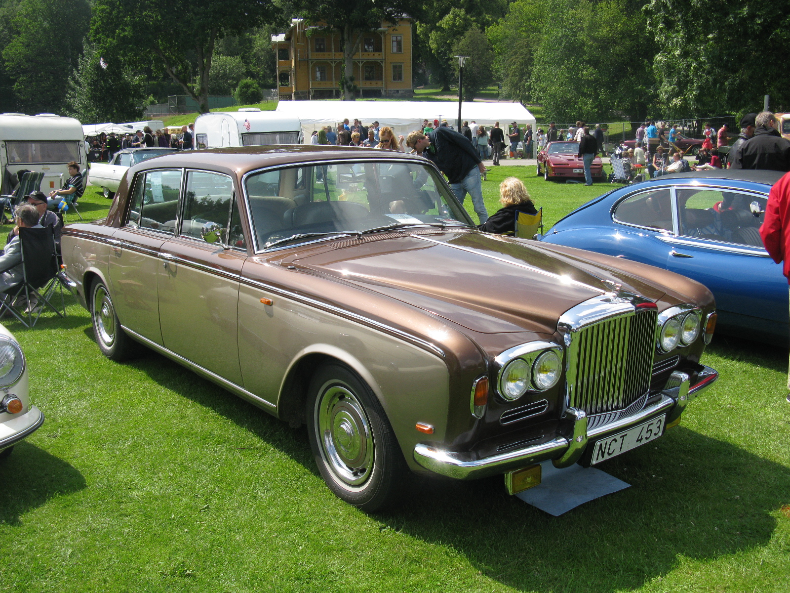 Bentley T1